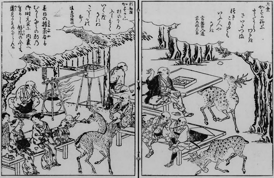 Tourists feeding deer-snack at resthouse